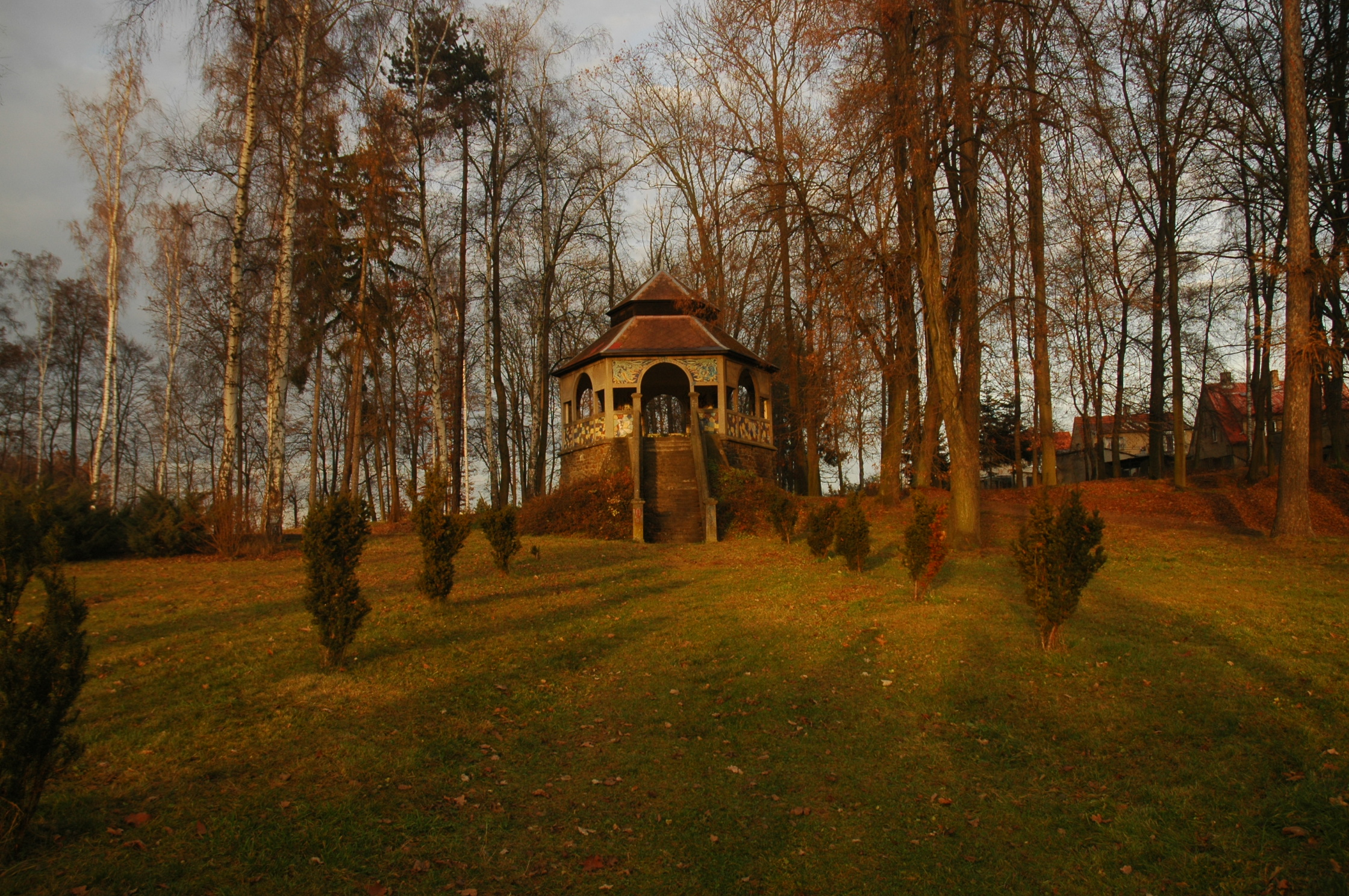 National monument Nový rybník u Soběslavi in Tábor District, Czech Republic